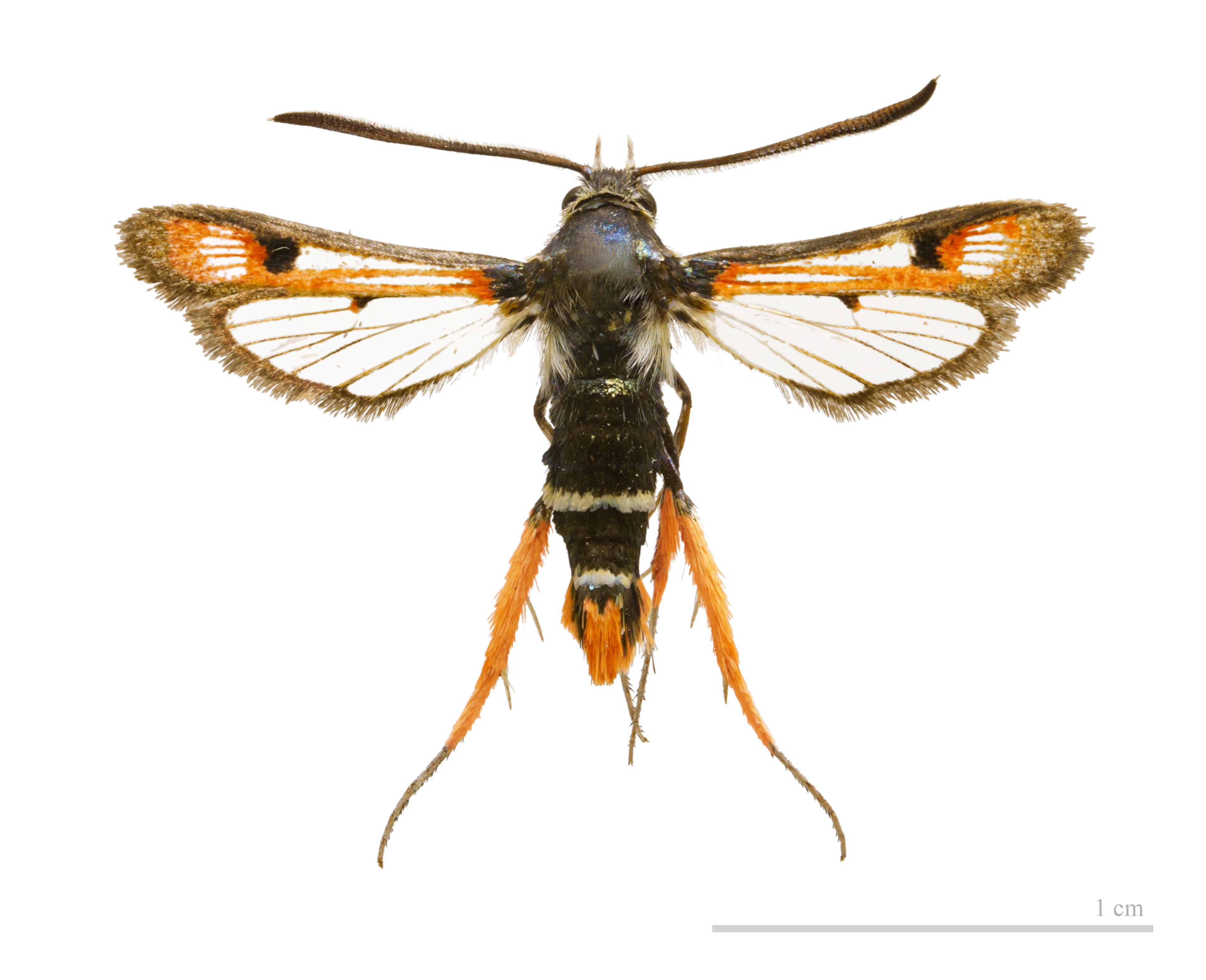 ♂ - Dorsal side Locality: Carbonnel, Rieux-de-Pelleport, Ariège, France